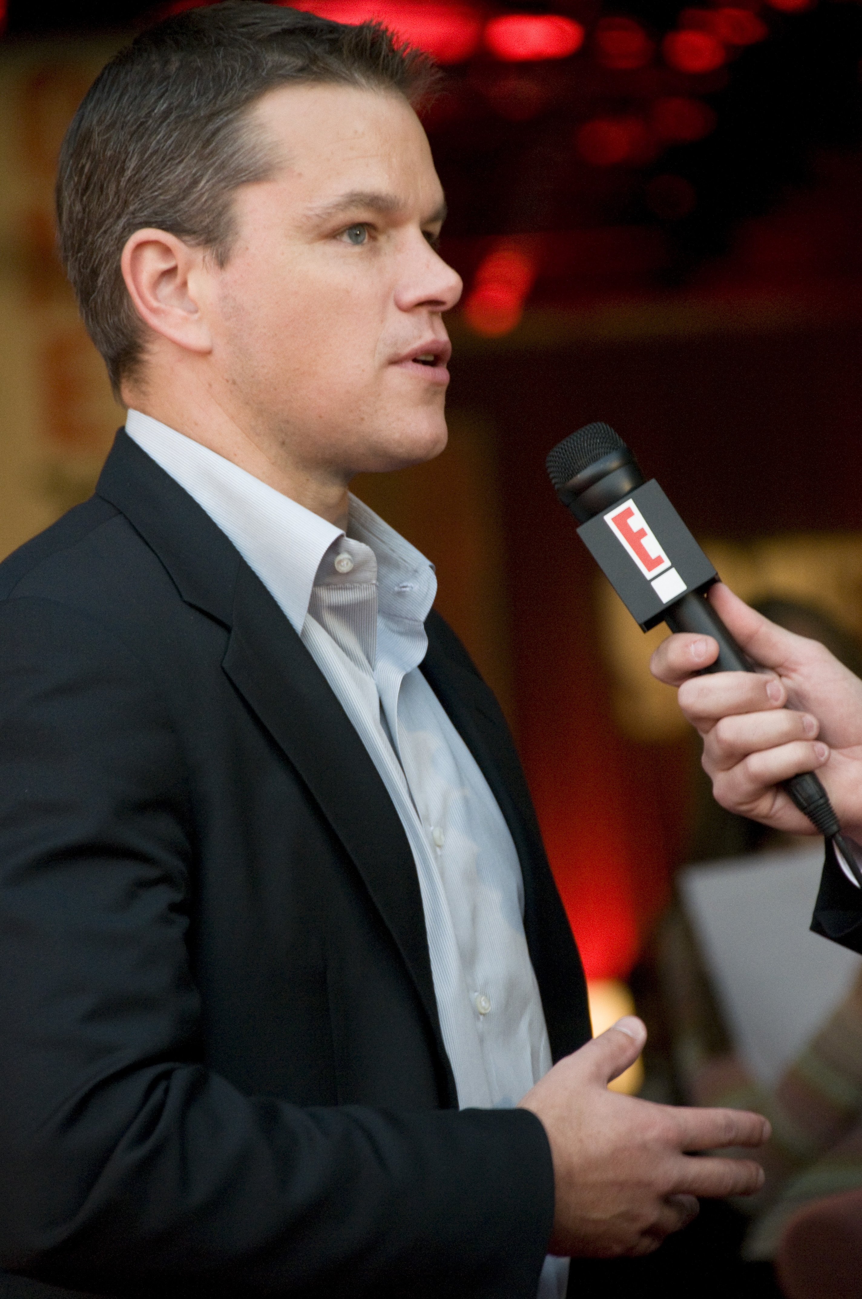 Matt Damon at the ONEXONE benefit in San Francisco, October 2008